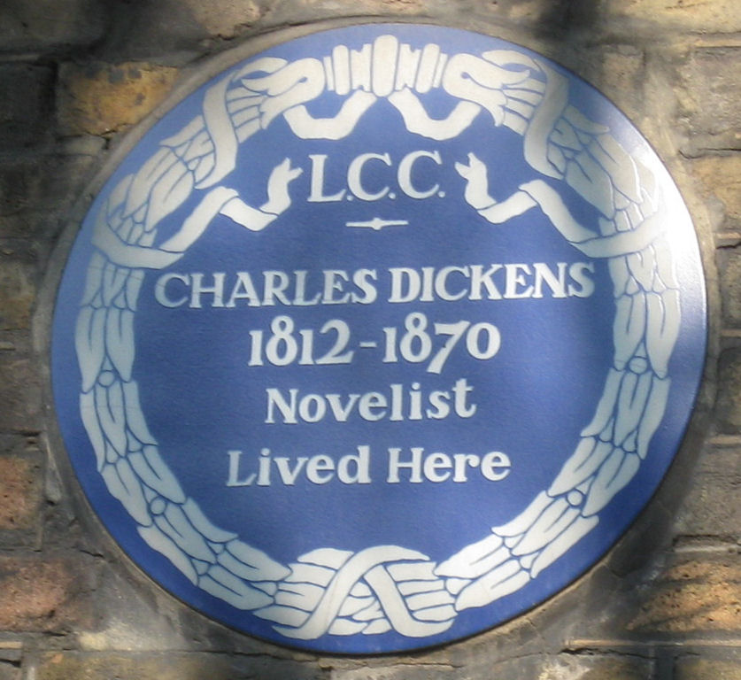 Blue plaque on no 48 Doughty Street, London WC1